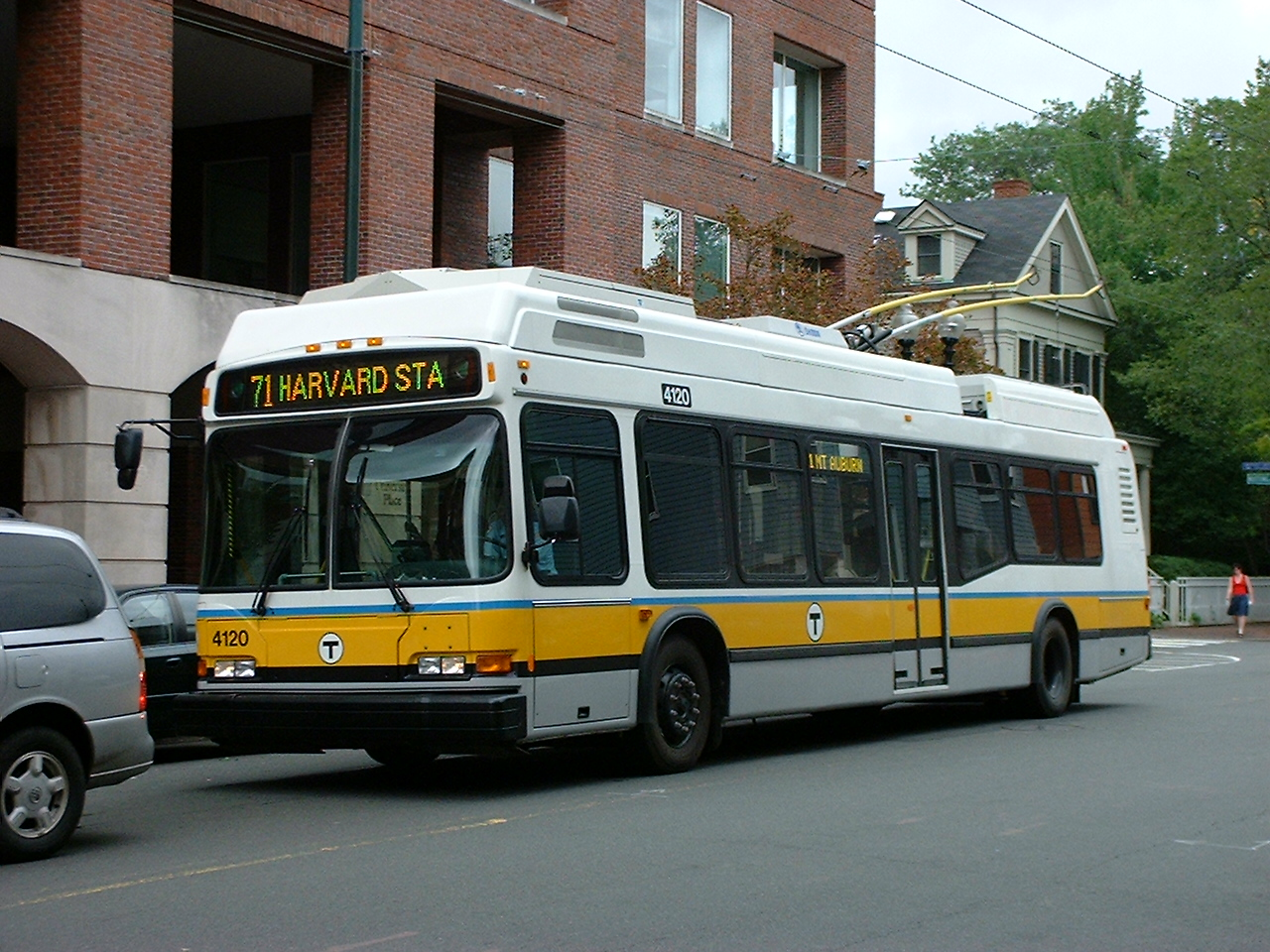 New (2004) Massachusetts Bay Transportation Authority Neoplan trolleybus number 4120, operating near Harvard Square in Cambridge, Massachusetts. Note unique left-side door to allow passenger loading in Harvard Square tunnel.